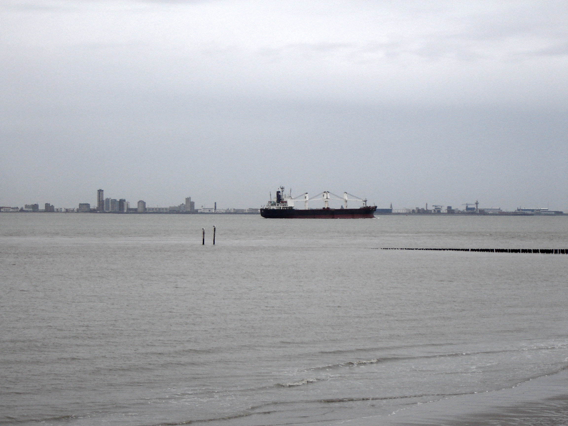 View on the town of Vlissingen and the mouth of the Westerschelde seem from Breskens, Zeeland, the Netherlands